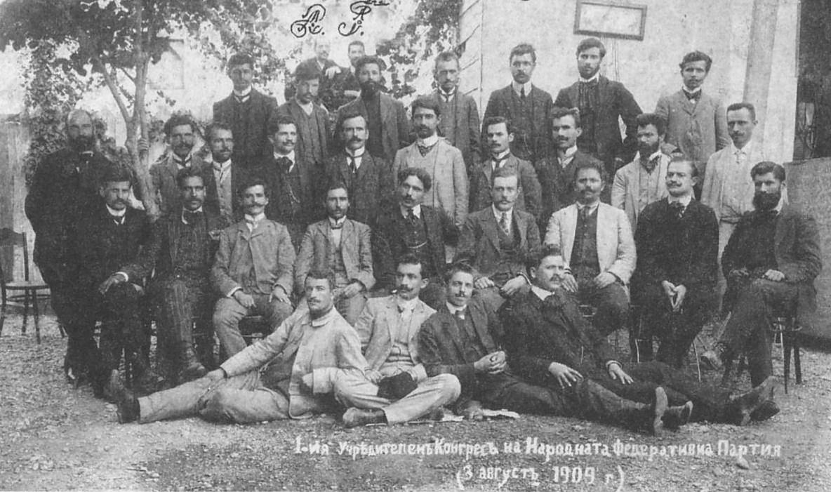 Delegates to the First Congres of NFP (Bulgarian section)